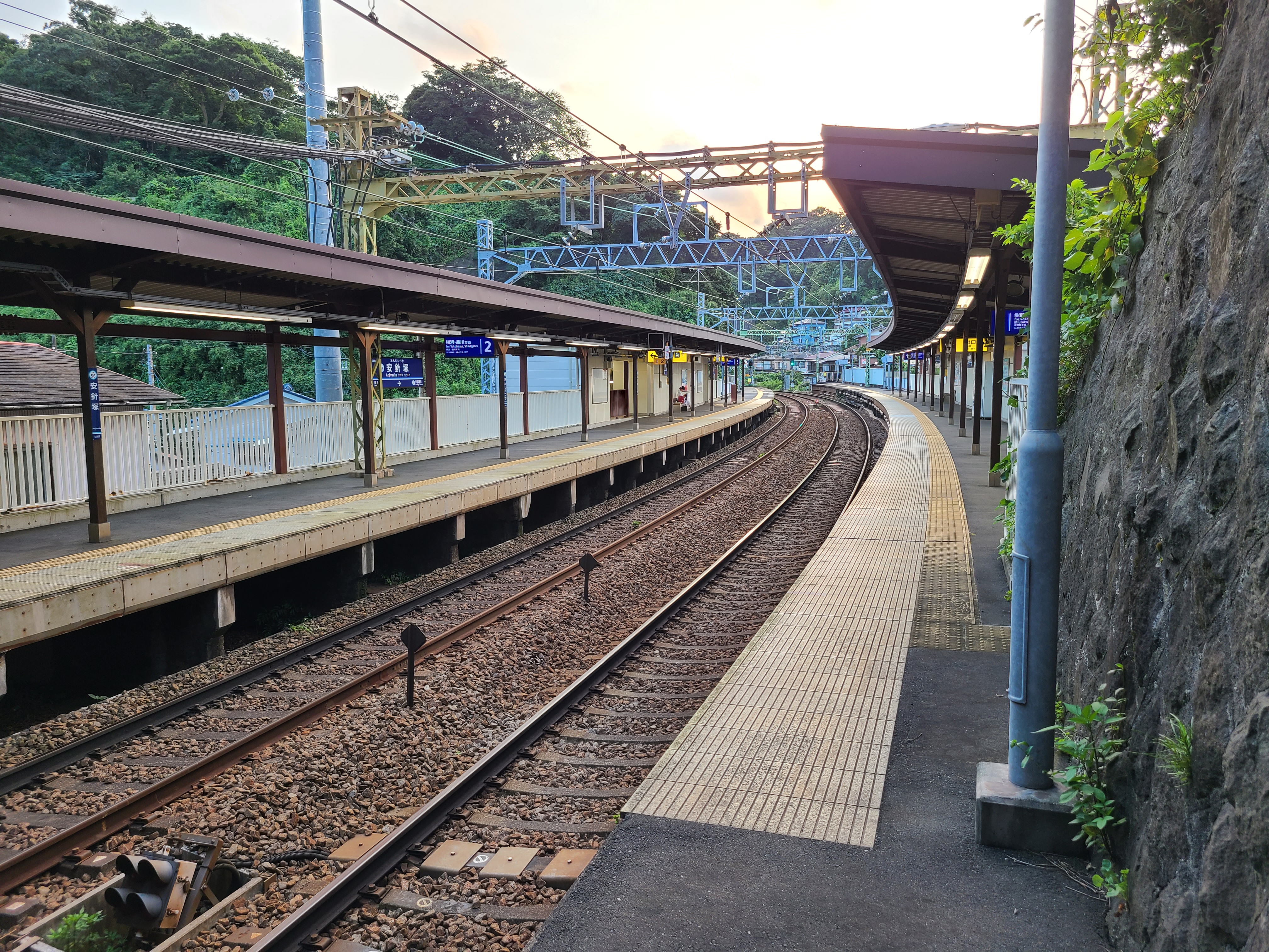 This is the platform of Anjinzuka station.